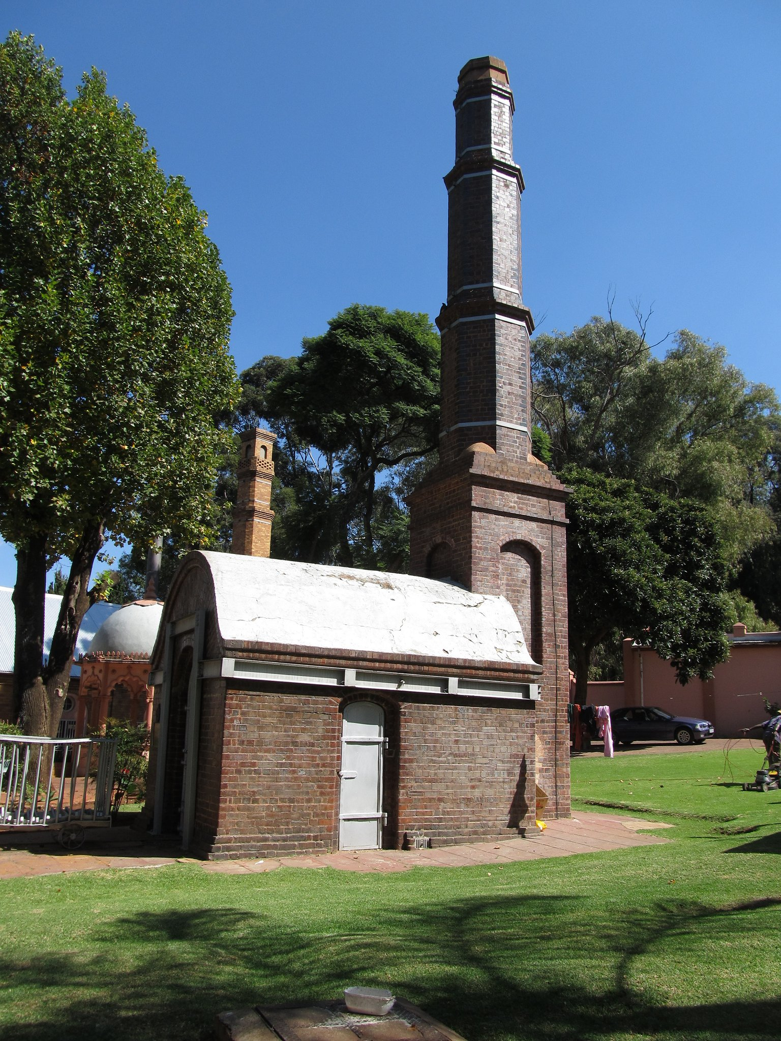 The old Hindu Crematorium in Brixton Cemetery This media shows a South African Protected Site with SAHRA file reference 9/2/228/0181.